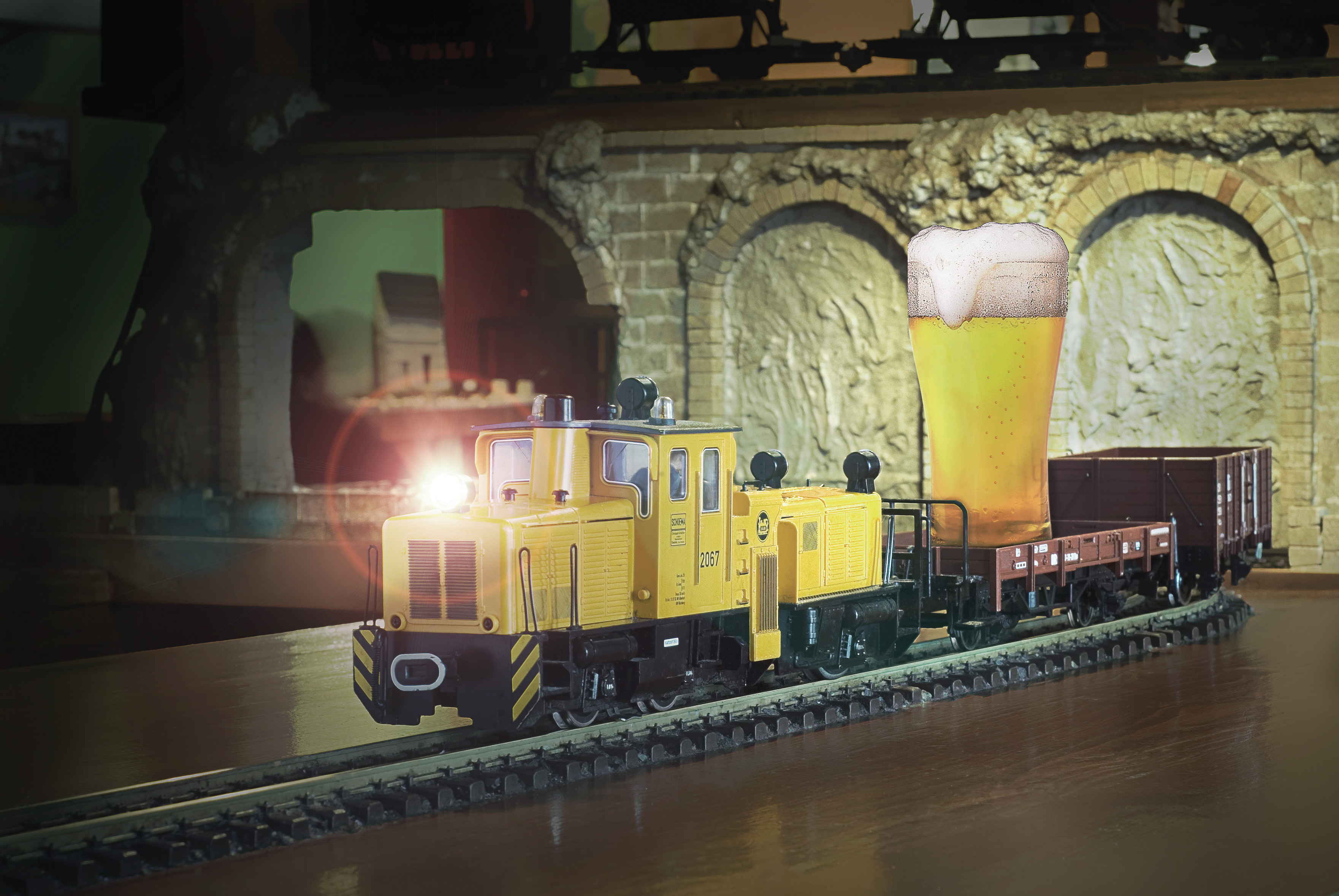 Výtopna